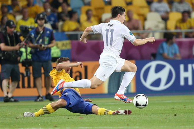 Samir Nasri at the Euro 2012 match against Sweden